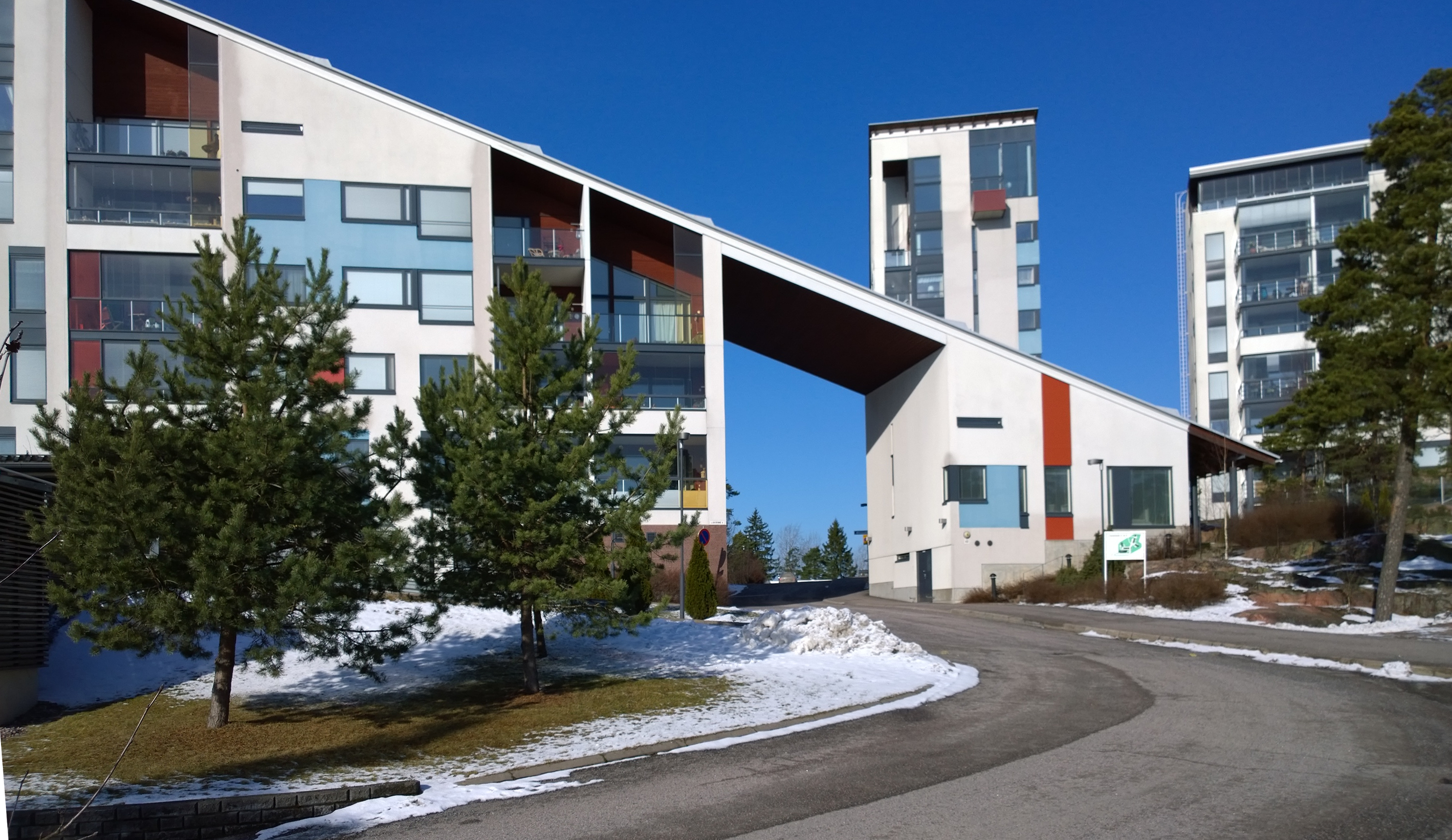 These buildings were erected between 2003-2005.